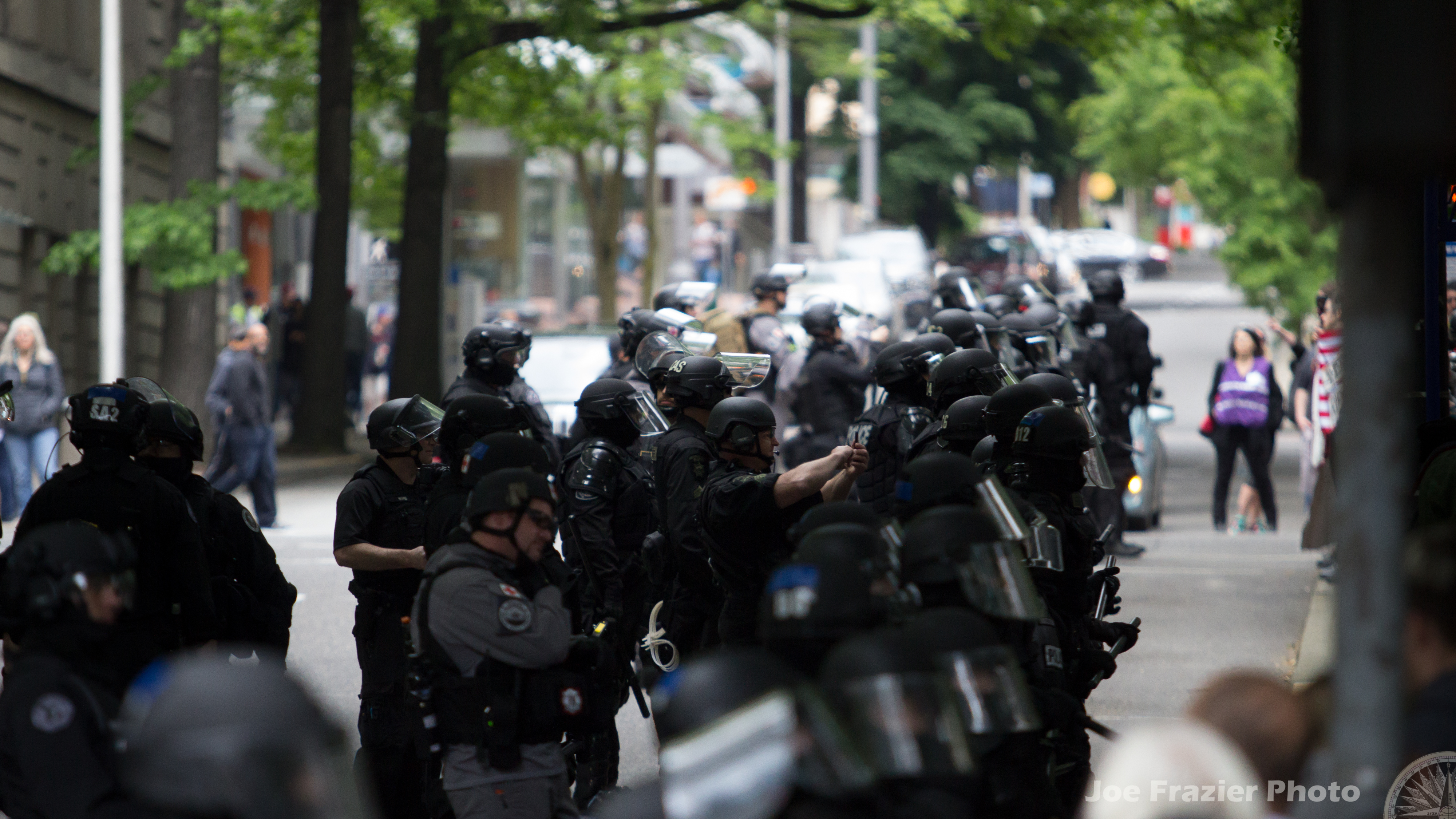 Arrayed against the anti-facists.